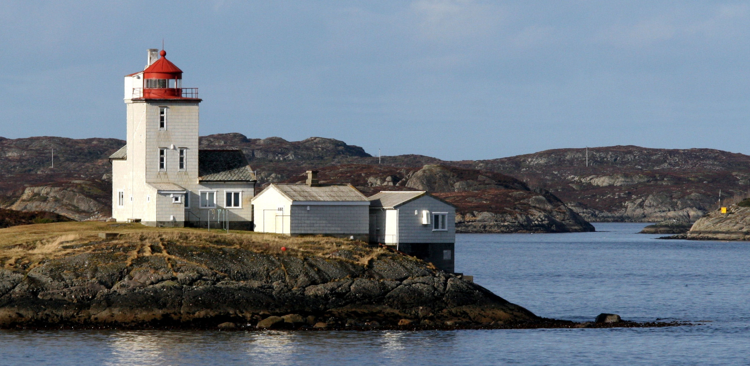 Tyrhaug lighthouse, Smøla community, Møre og Romsdal county, Norway